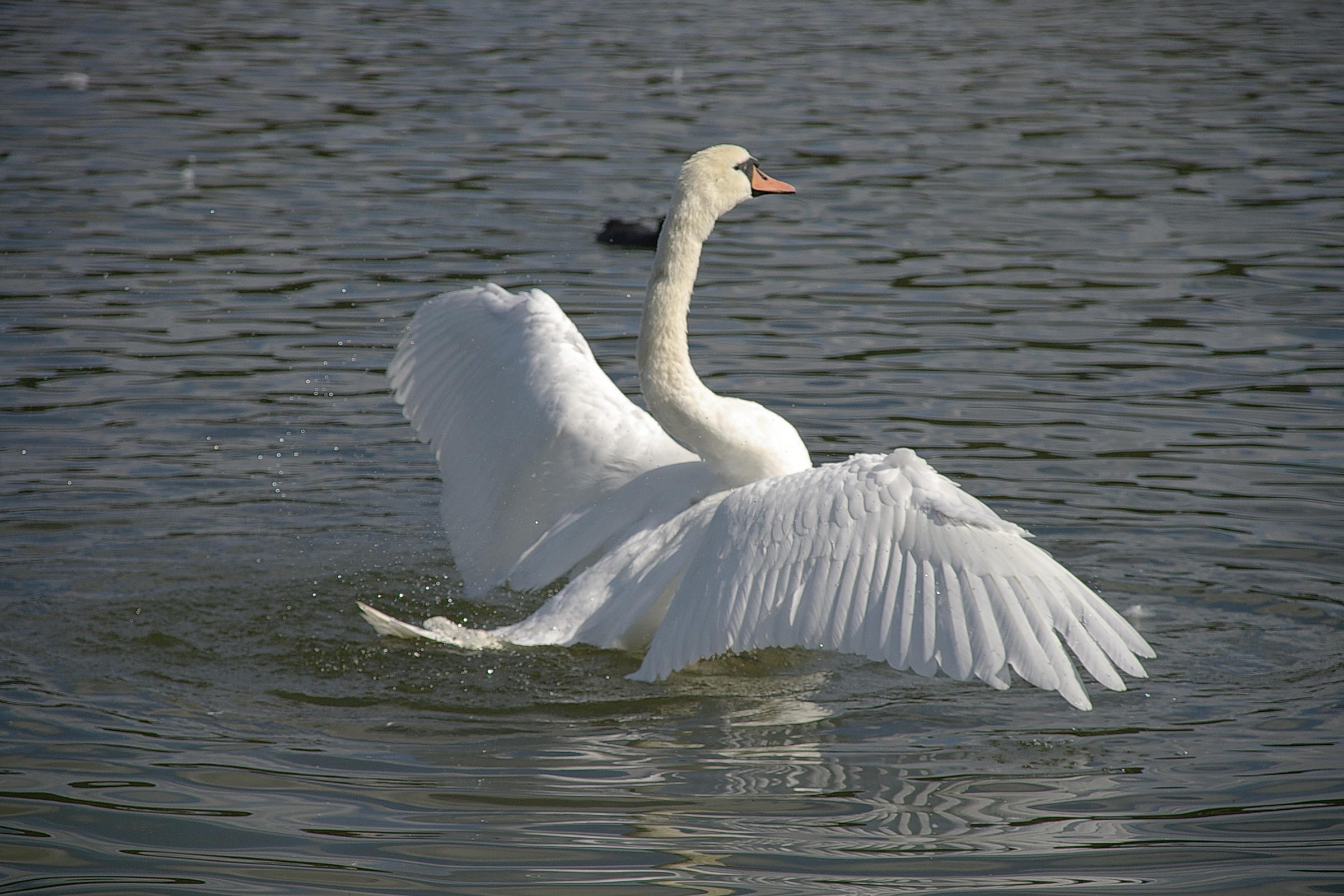 Swans (Cygnus olor) at Ruislip Lido.